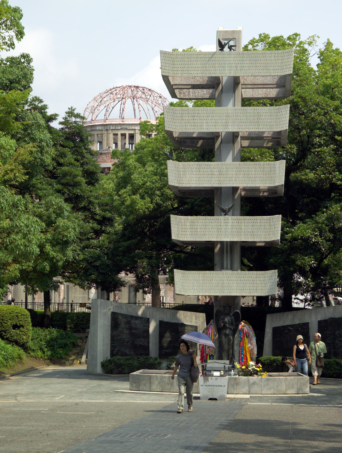 Monument to mobilized students killed in atomic bombing of Hiroshima, Japan. Peace Memorial Park. I took this photo and contribute my rights in the file to the public domain; people and organizations retain rights to images in it.